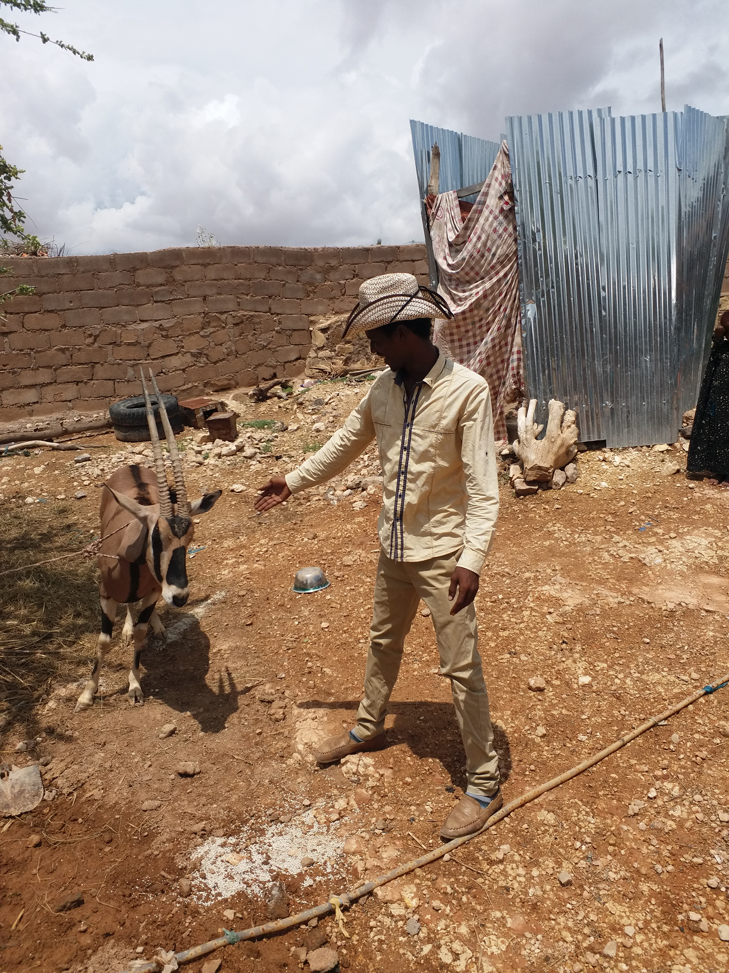 This is an image with the theme "Play" from: Ethiopia